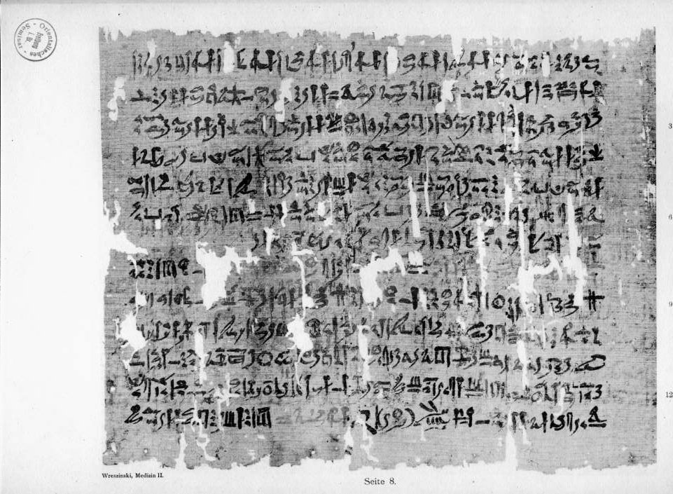 Plate 8 of London Medical Papyrus